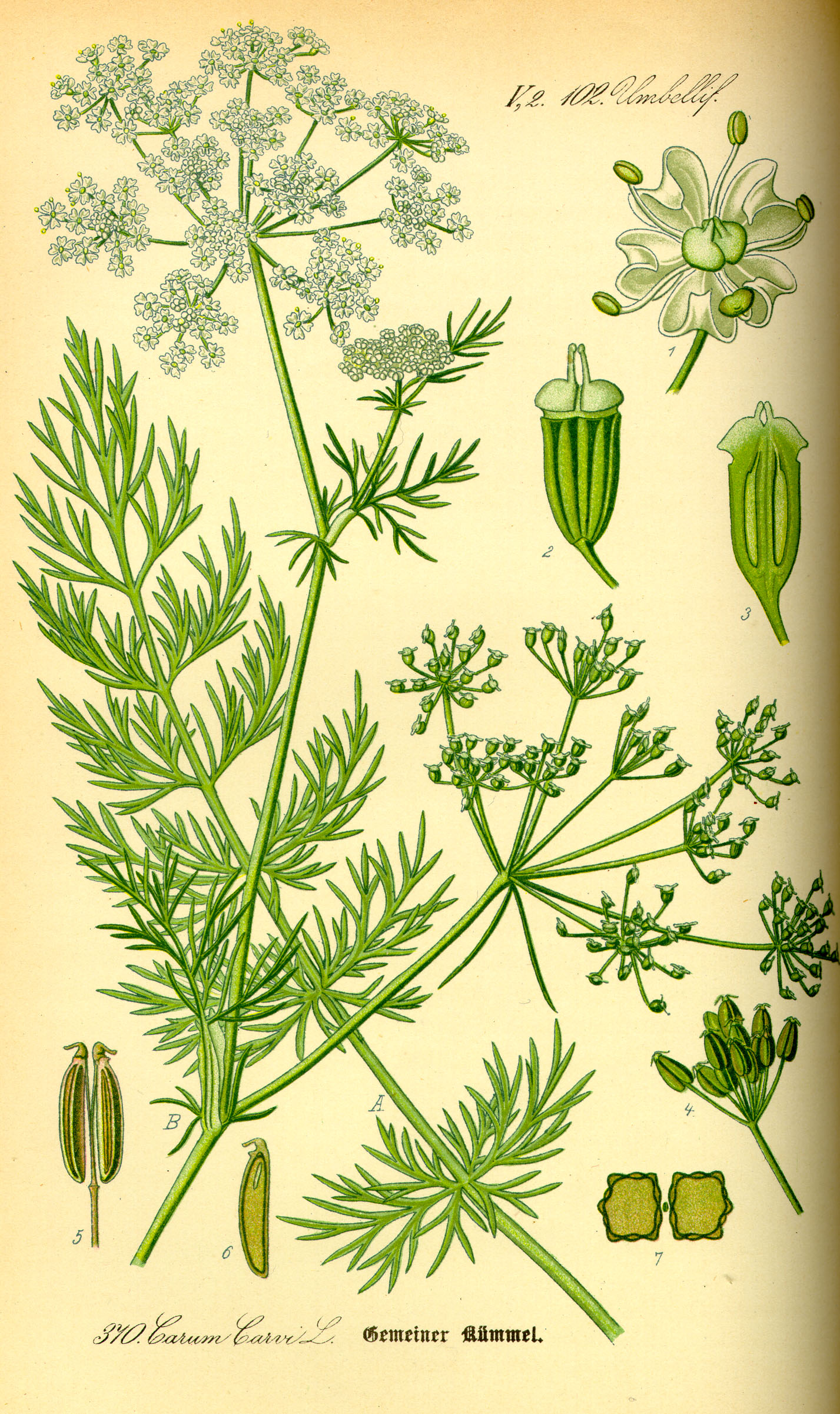 Name Carum carvi Family Apiaceae